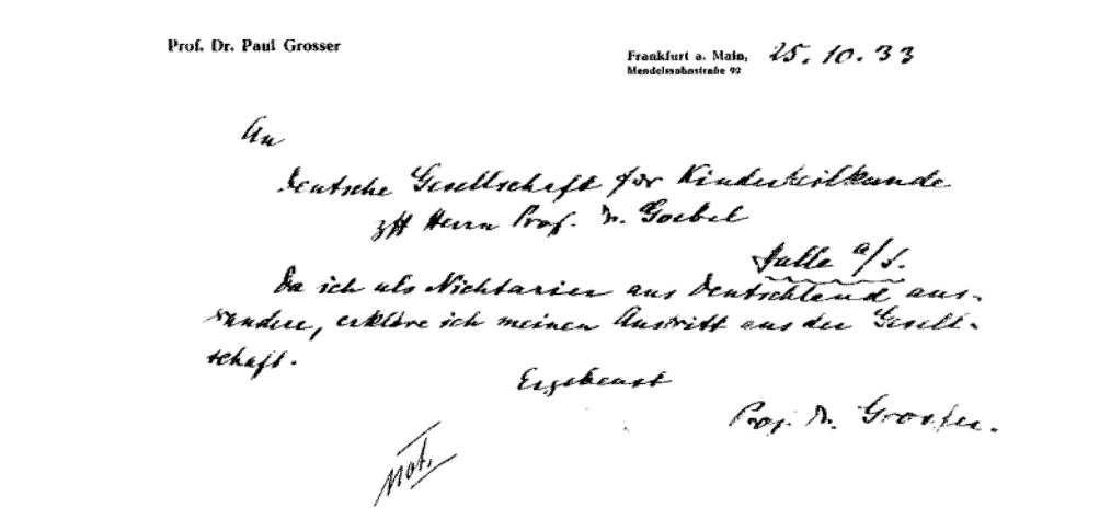 Handwritten notice of membership cancellation of Deutsche Gesellschaft für Kinderheilkunde (DGfK) by Prof. Dr. Paul Grosser of Frankfurt am Main on 28 October 1933 due to his status as a "Non-Arian" and his upcoming emigration.